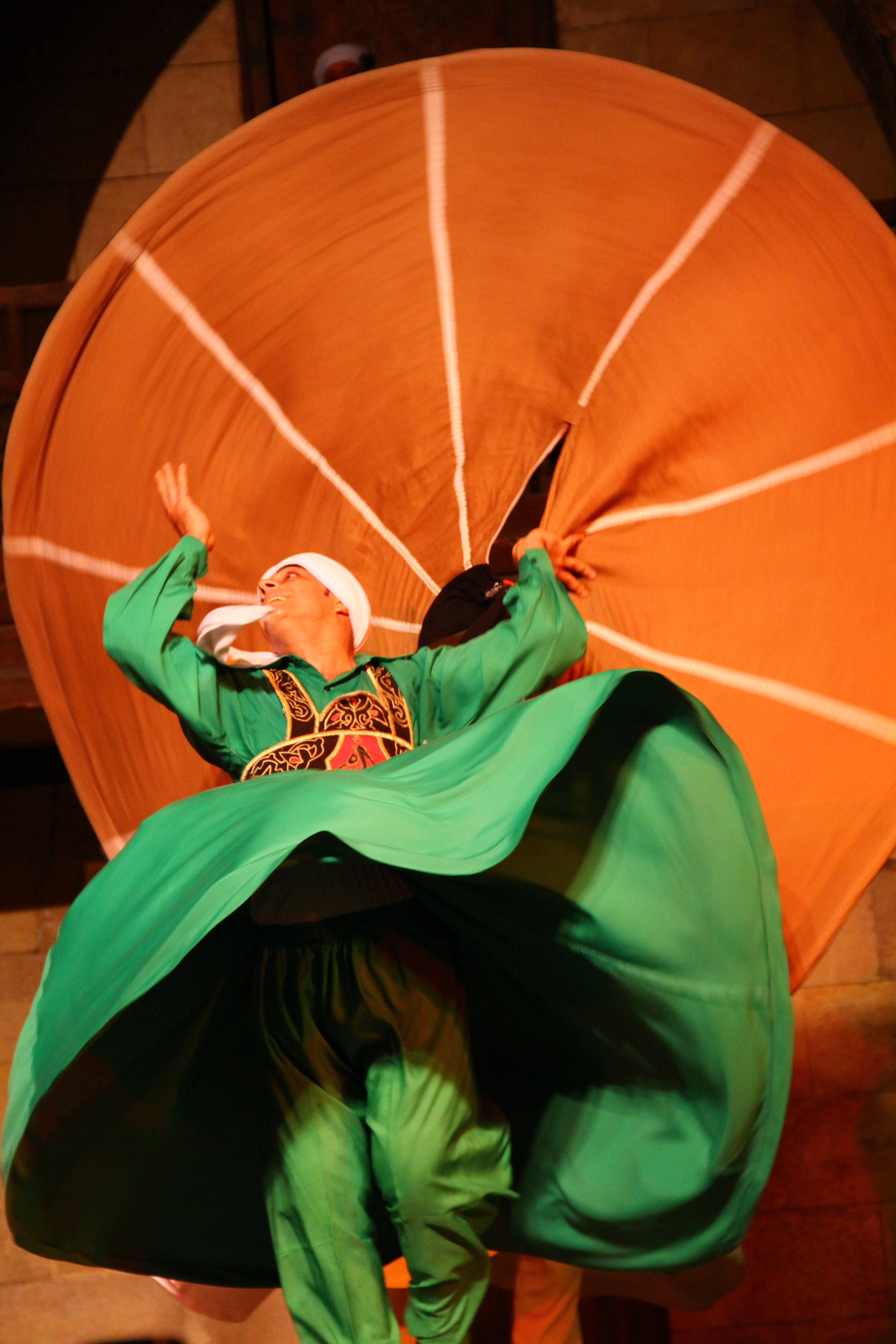 Dancer from Al-Tannoura Egyptian Heritage Dance Troupe performing religious Sufi Dance (Sufi whirling) at Wikala Al-Ghouri, Cairo.